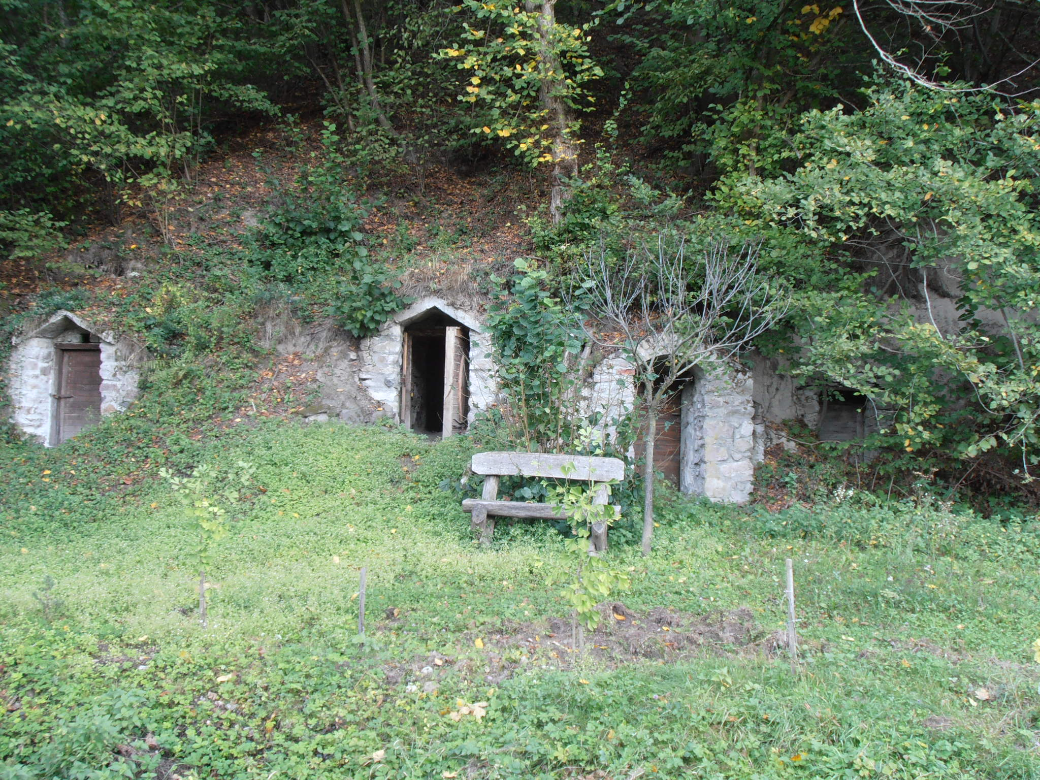 Hillside cellars in Kishuta, Hungary Domboldalba ásott pincék Kishután